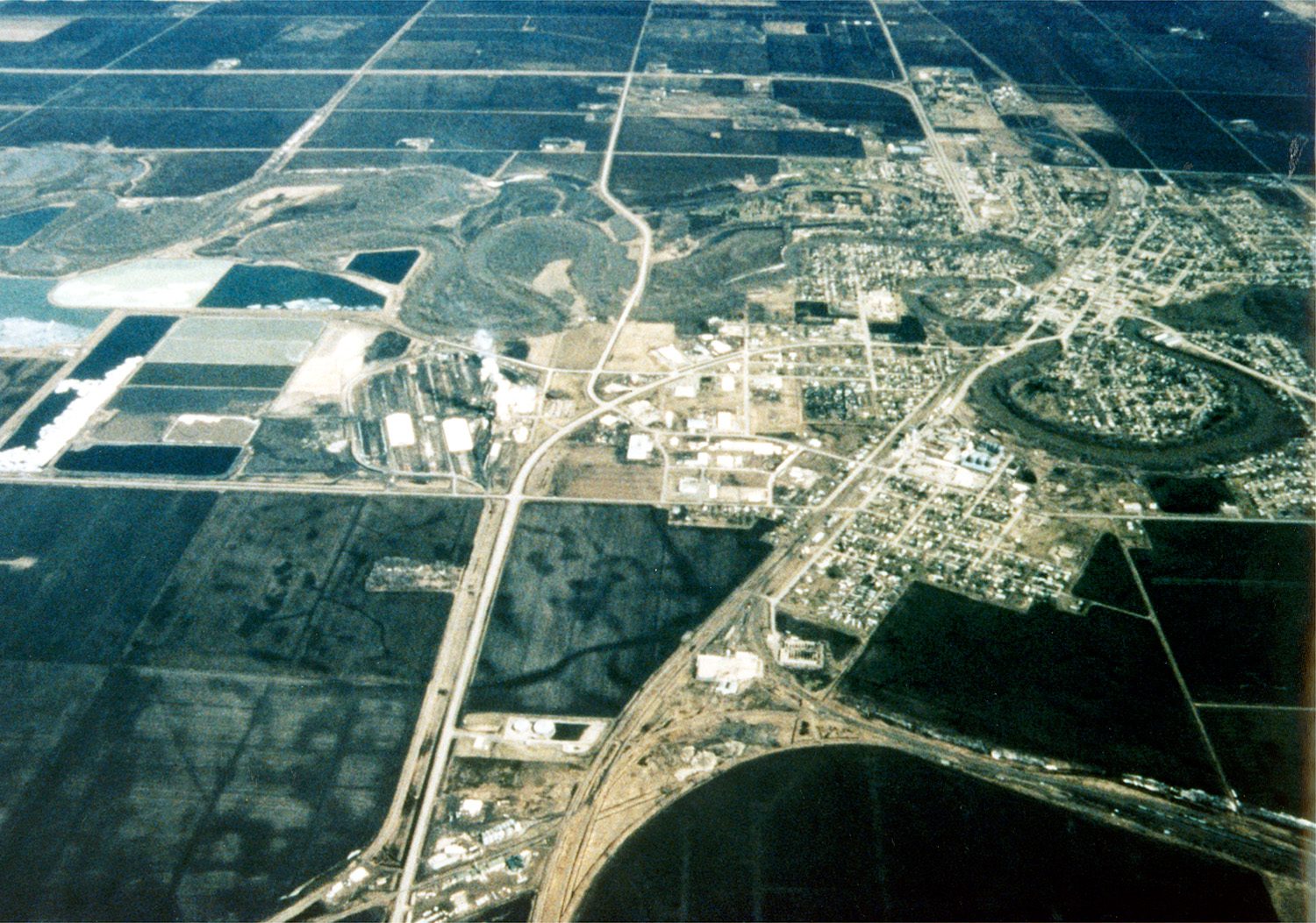 Aerial view of Crookston, Minnesota, USA. The Red Lake River twists and turns on its way through the city. The Red Lake River runs west-northwest to join the Red River about 22 miles (straight line) west of Crookston at Grand Forks, North Dakota (hence the name Grand Forks).